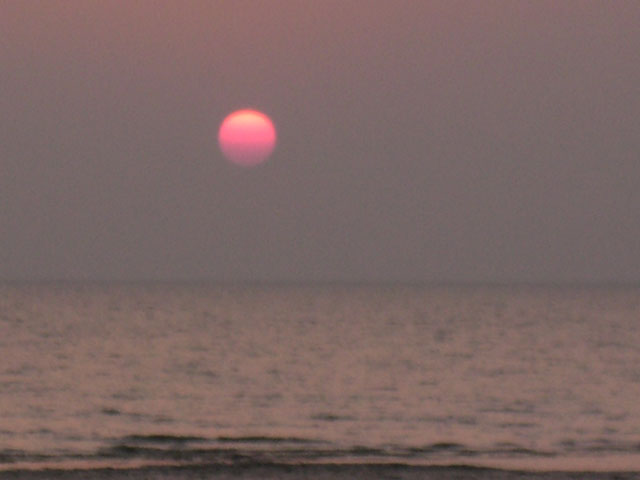 Sunset at Kuakata